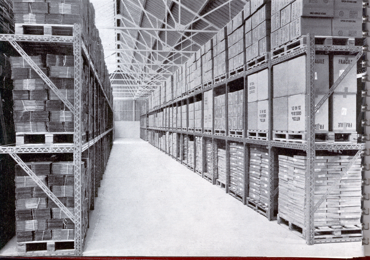 An old installation of Dexion Slotted Angle, adjustable storage System for pallets.